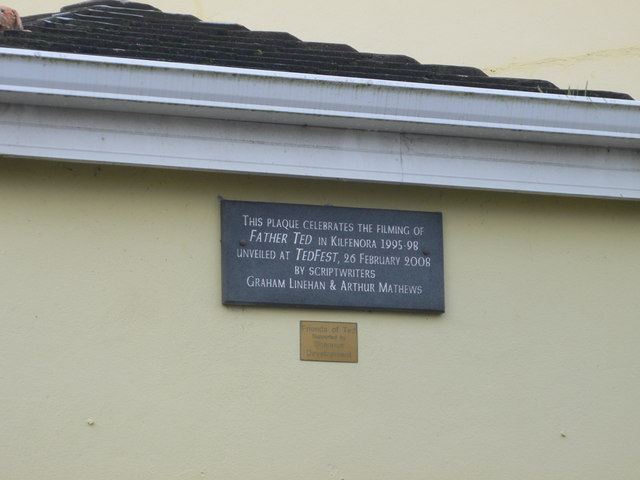 TedFest plaque, Kilfenora Plaque on the village hall in Kilfenora to celebrate the filming of parts of the Father Ted series. They held a TedFest here in 2008